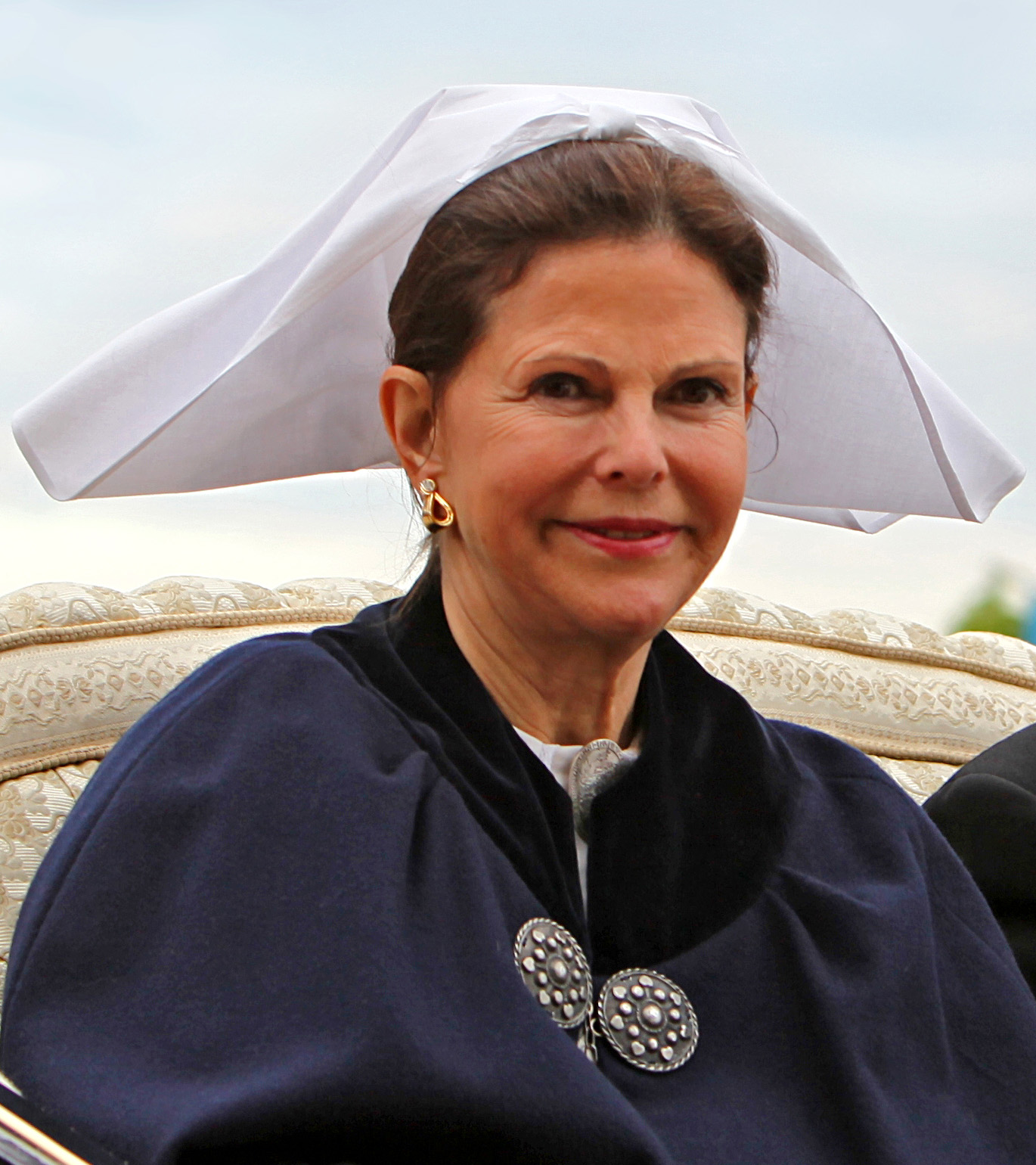 Queen Silvia of Sweden